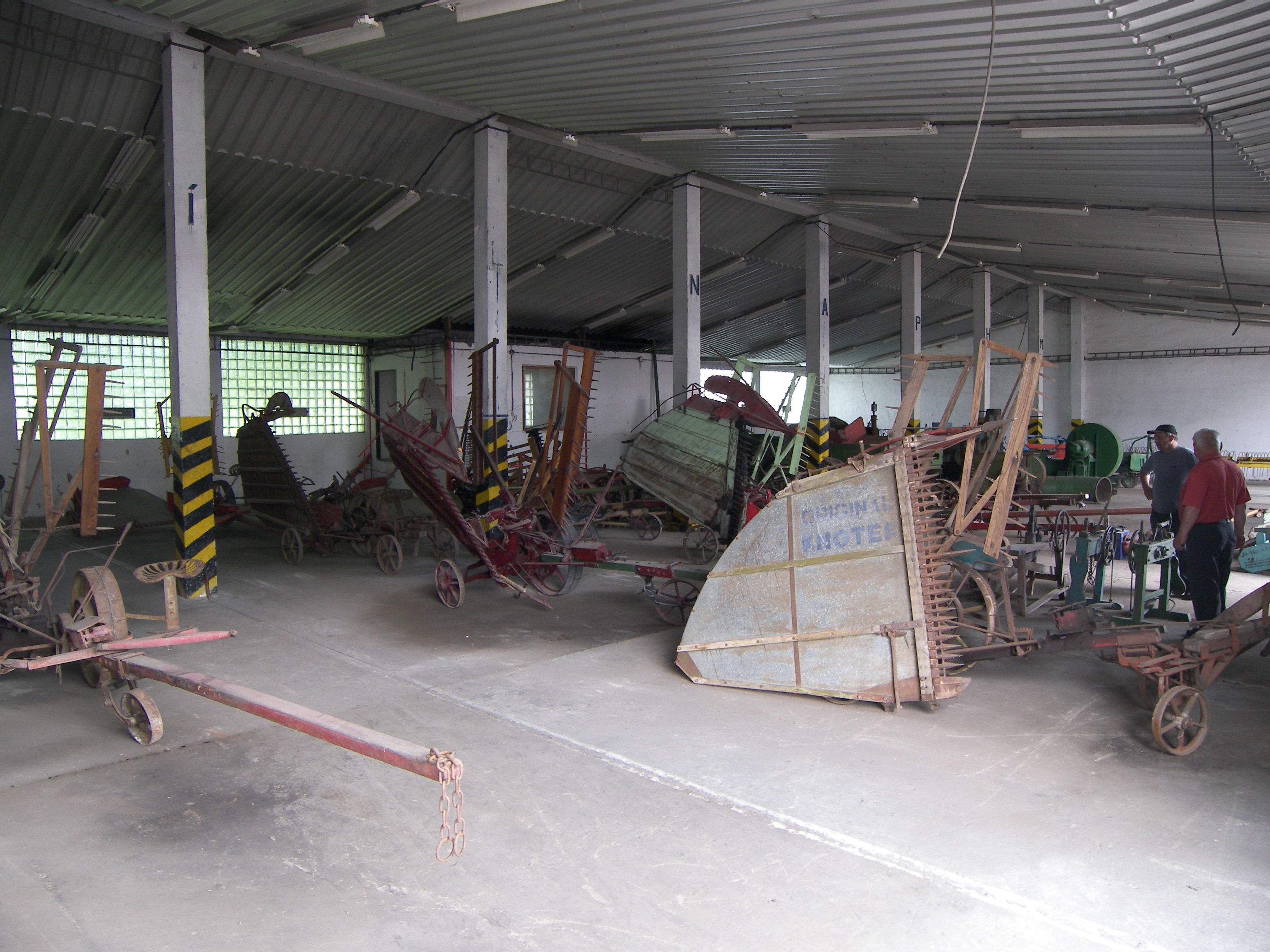 Museum of Farming Machinery Čáslav, Czech republic. Collection of historic harvesting machines (reapers).